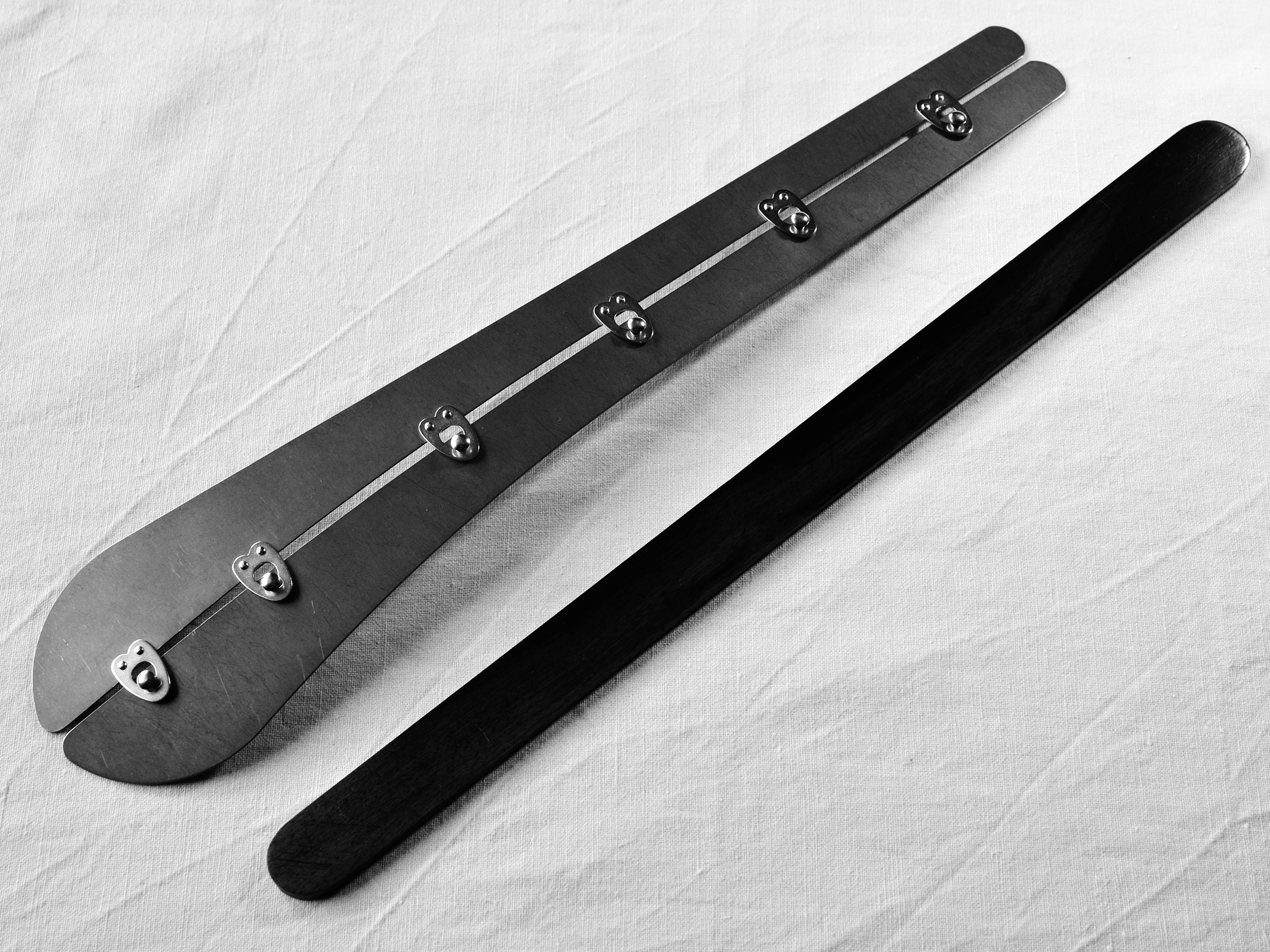 On the left is a Spoon Planchette as it was used in the 19th Century, in front of it a busk made ​​of dark hardwood as it was used the 16-18. Century.